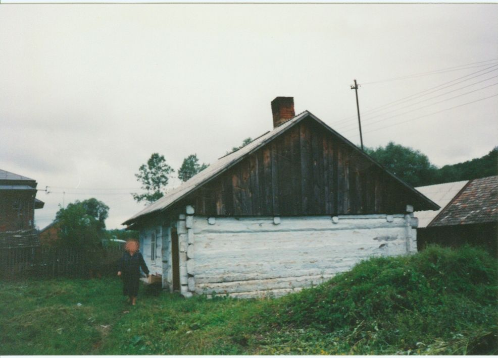 The house of Walenty Gocek in Czaszyn, southeastern Poland.